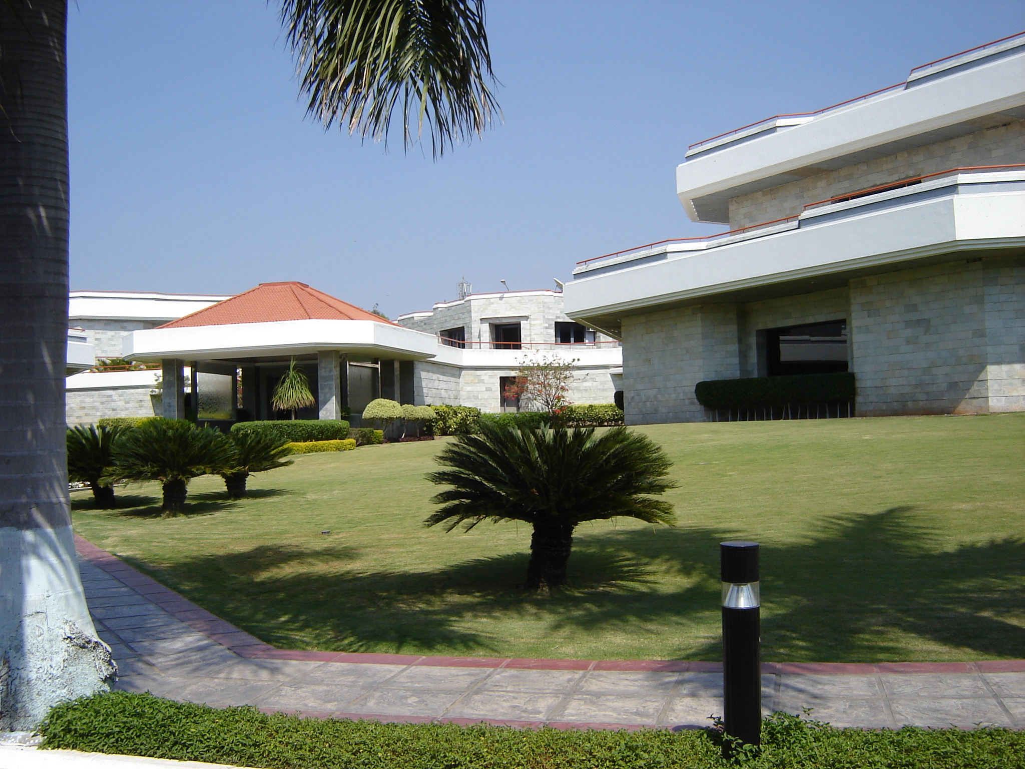 Office of satyam computer services ltd. Author : Ranjit Nair (Pic was taken by me) Source : PIC taken by self using own camera.